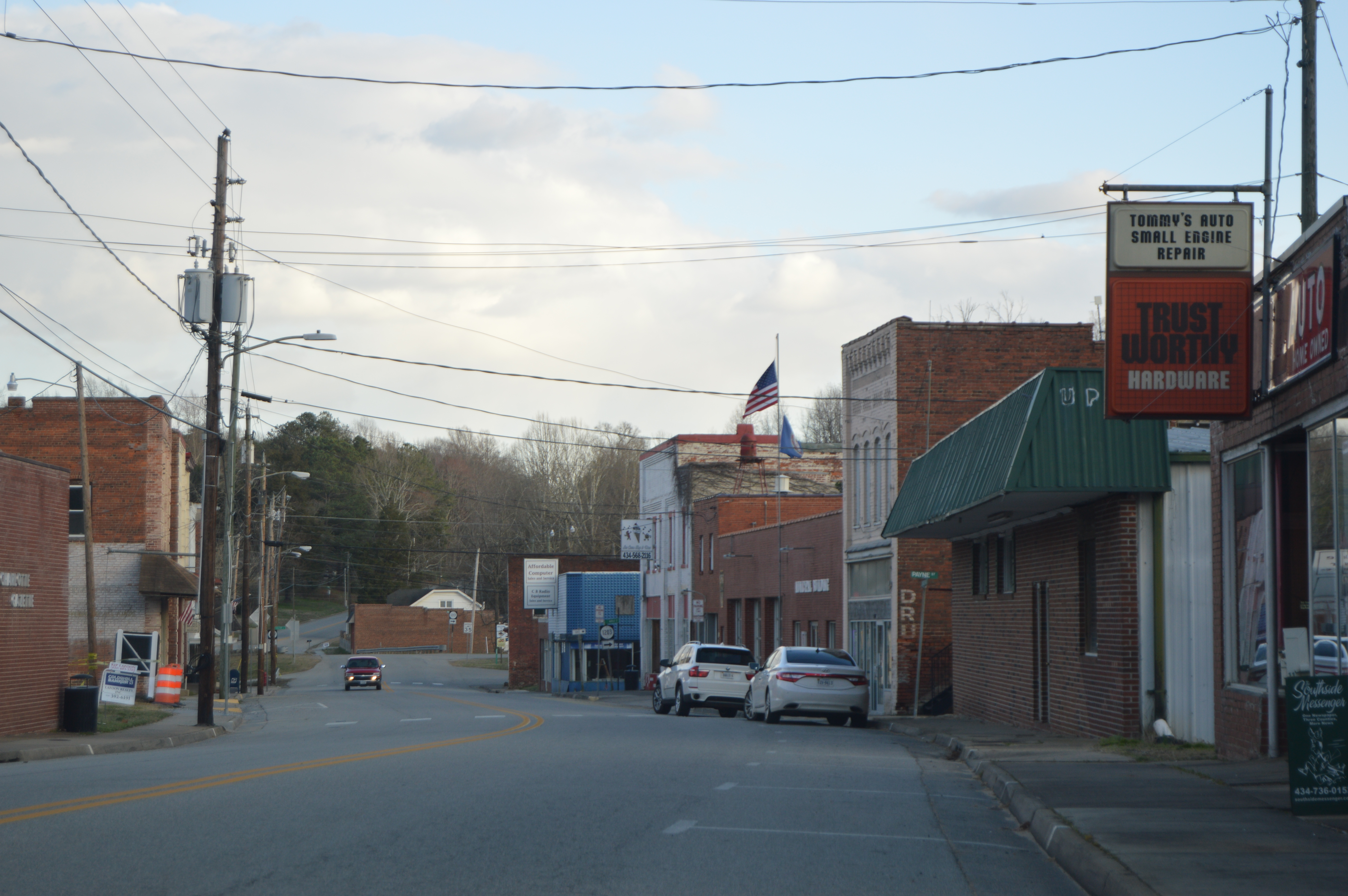 Commercial buildings on State Route 47 in central Drakes Branch, Virginia, United States.